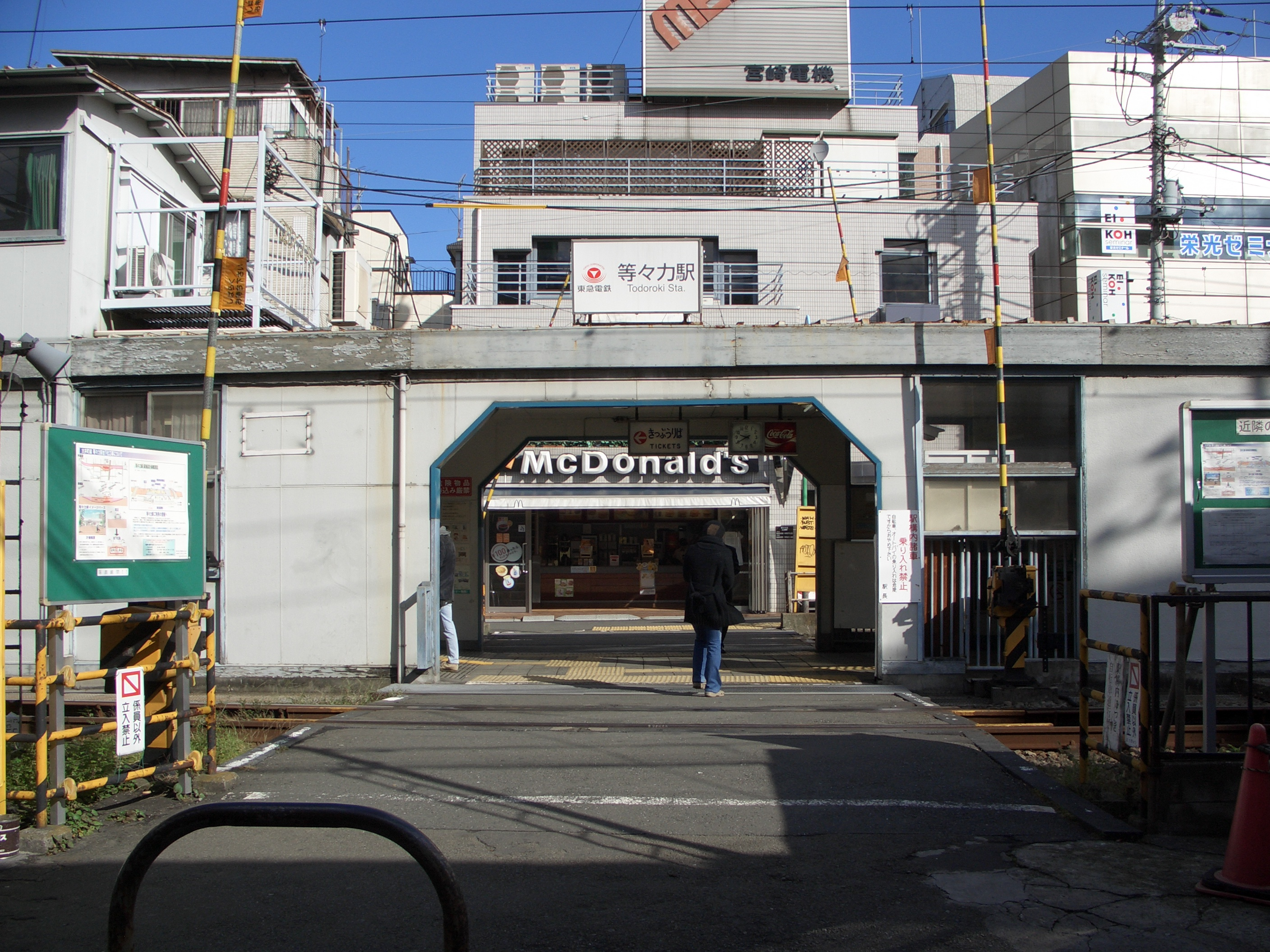 Tokyu Oimachi Line Todoroki Station